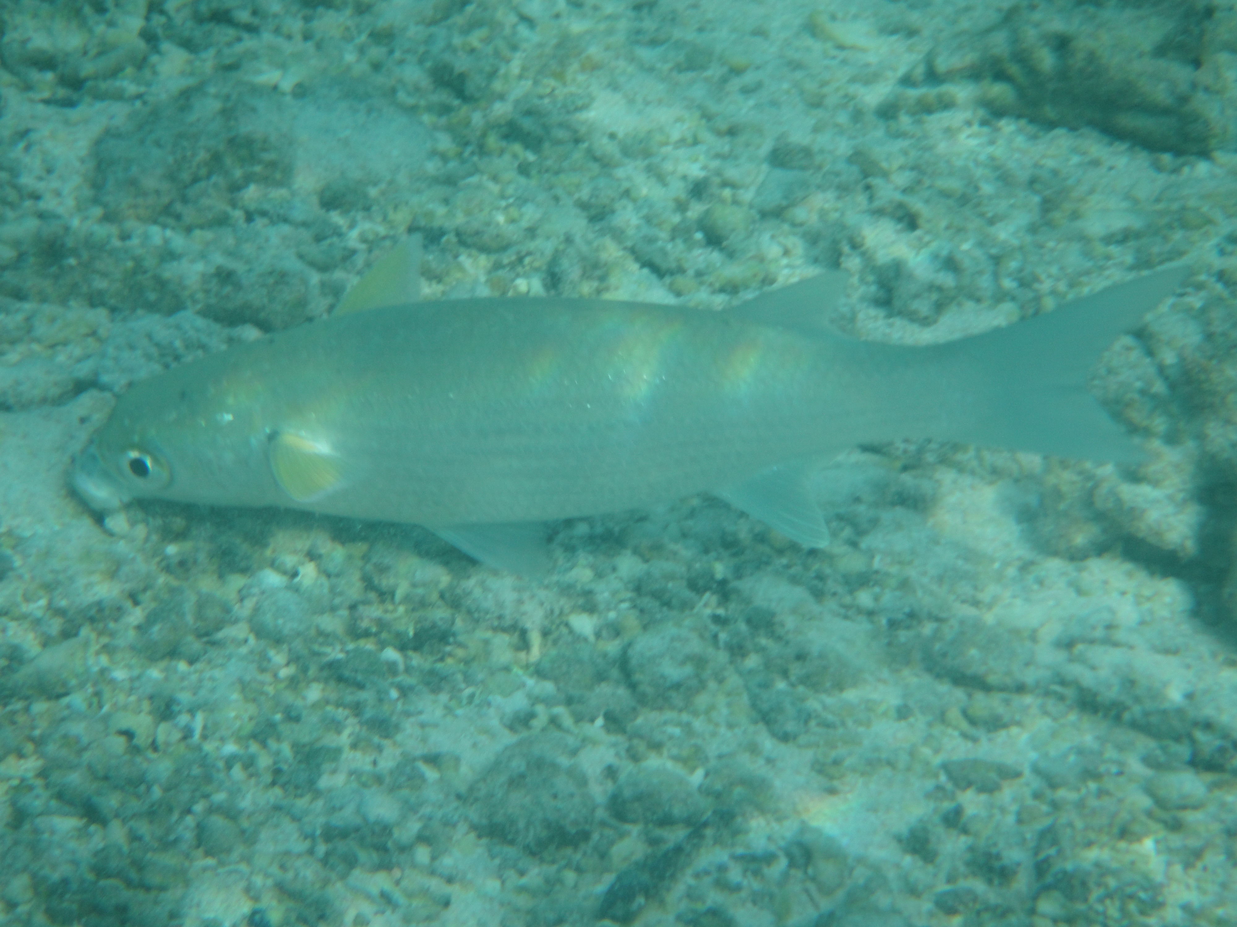 Crenimugil crenilabis